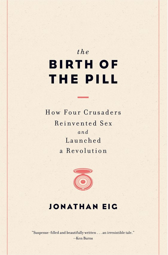 Book review ‘The Birth of the Pill,’